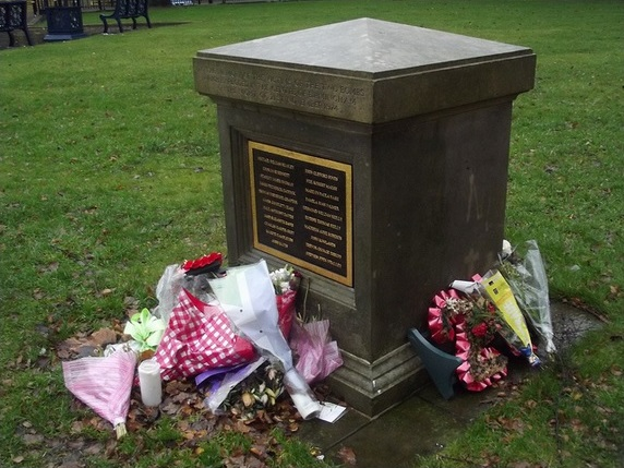 The restored plaque to the victims of the 1974 Birmingham pub bombings